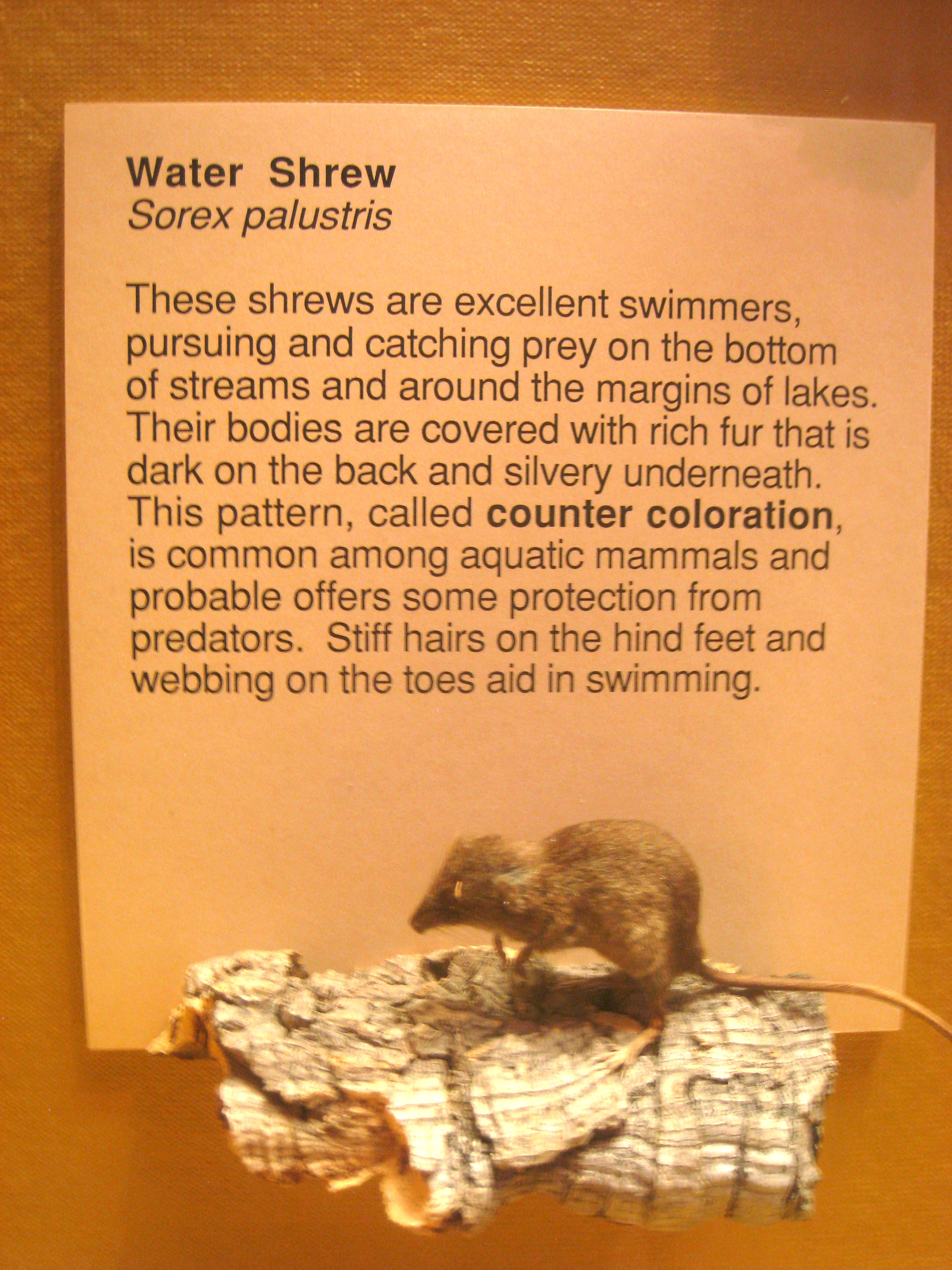 Sorex palustris. Exhibit Museum of Natural History, University of Michigan, 1109 Geddes Avenue, Ann Arbor, Michigan, USA.